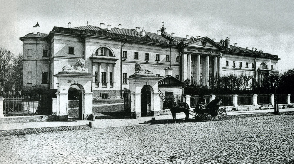 Paul's Hospital in Moscow - the last work of architect Matvey Kazakov.